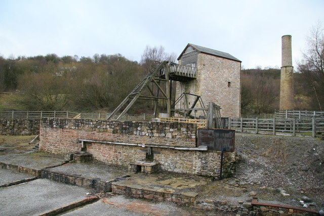 Minera Lead Mines, near to Coedpoeth, Wrexham/Wrecsam, Great Britain. Restored engine house on Meadows Shaft.